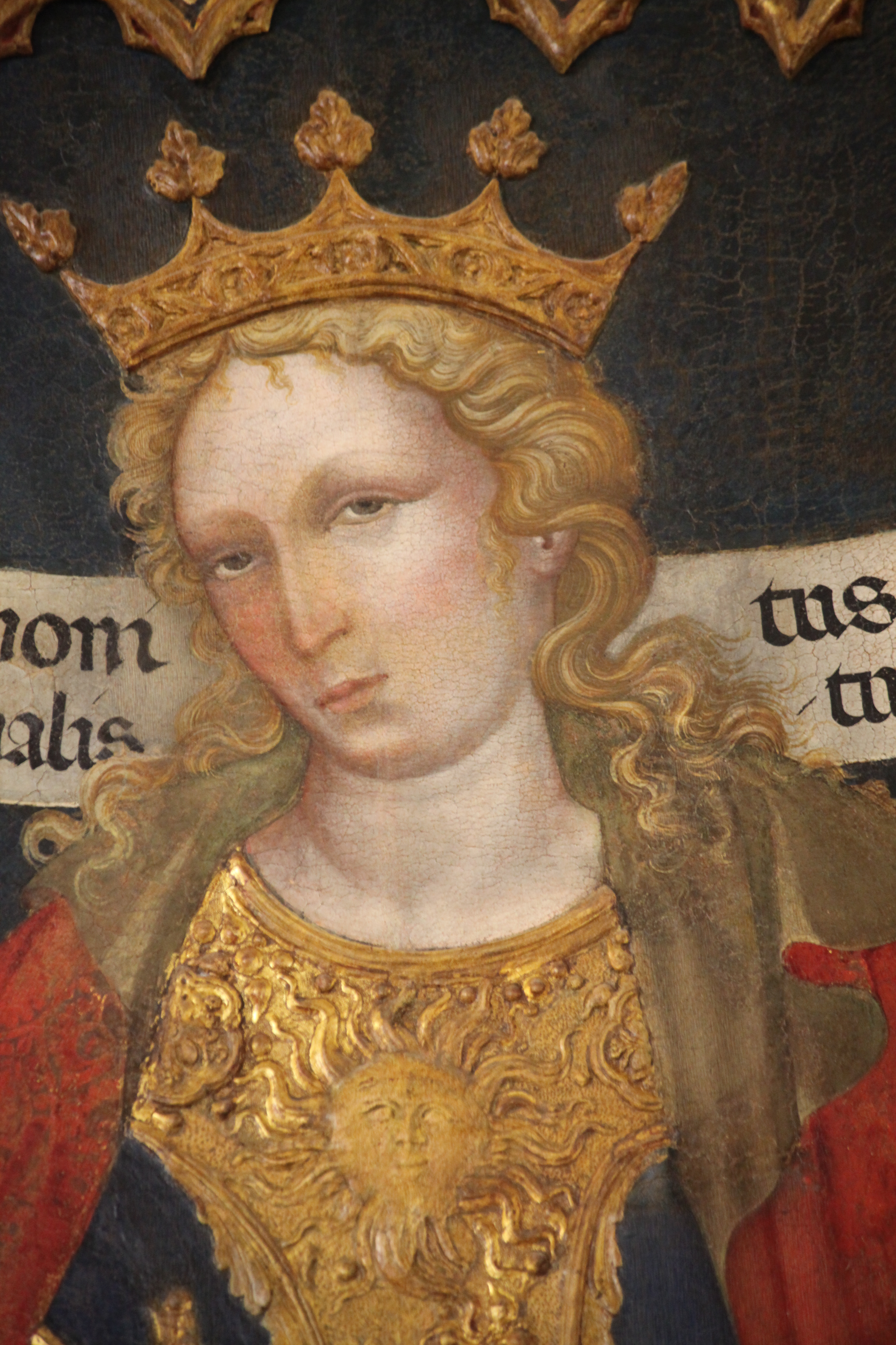 Justice seated between two lions and the archangels Michael and Gabriel. She holds her attributes sword and scales.